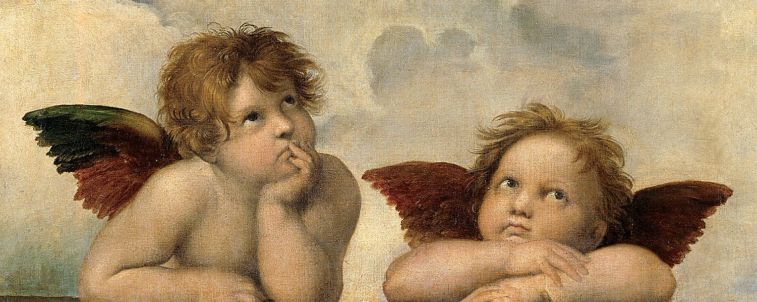 Two putti, as seen in the painting Sistine Madonna by Raphael